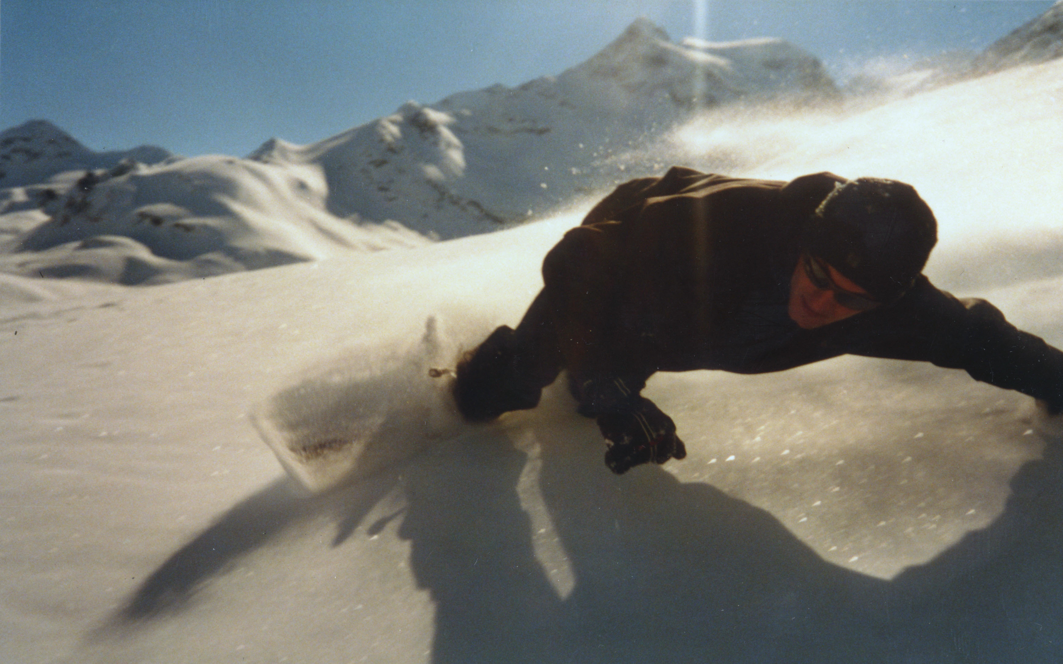 Snowboarder leaning inwards in curve in Deep Powder at high speed to counter the centrifugal force